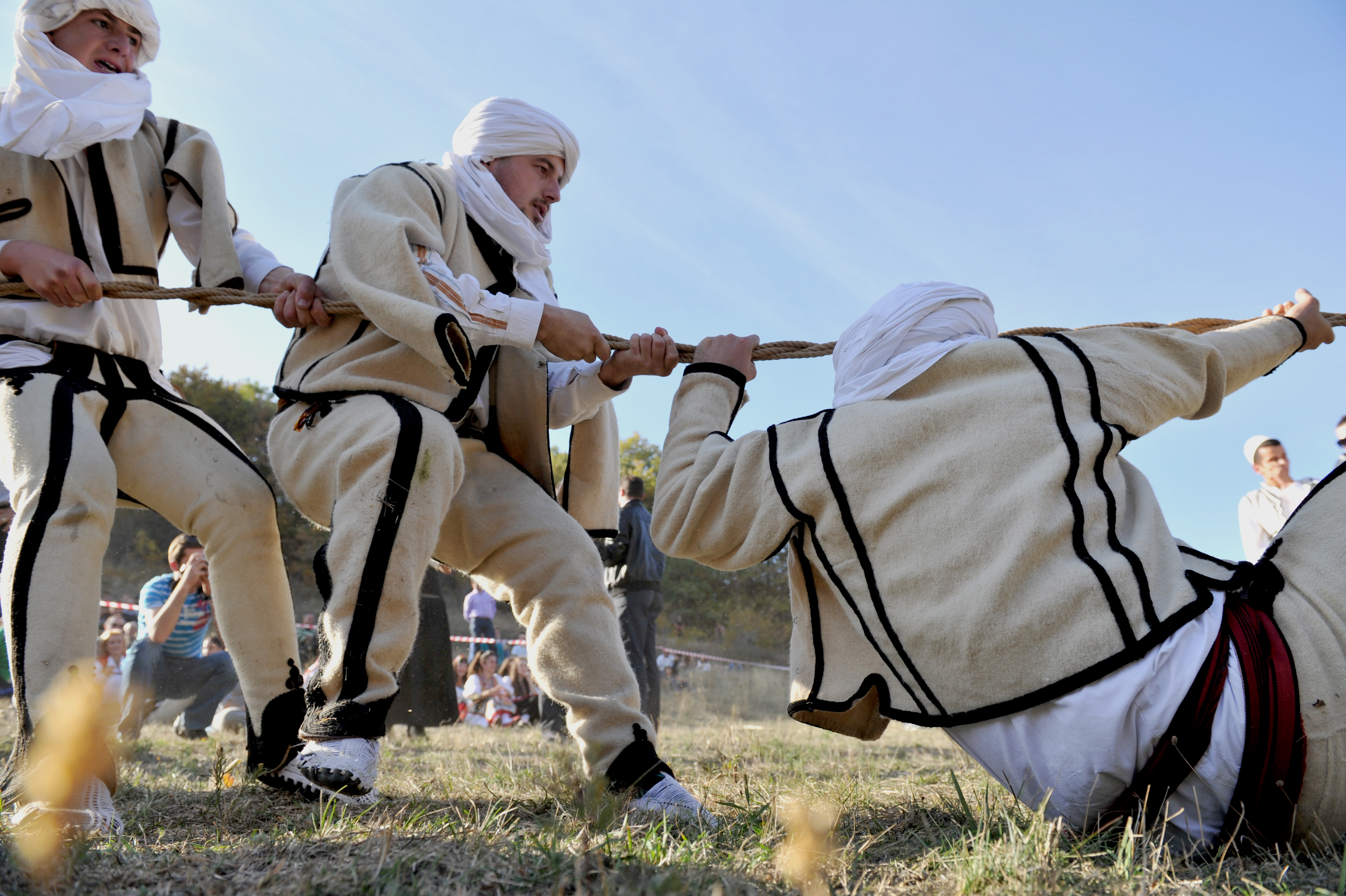 ALBANIADA sporte tradicionale shqiptare (1)